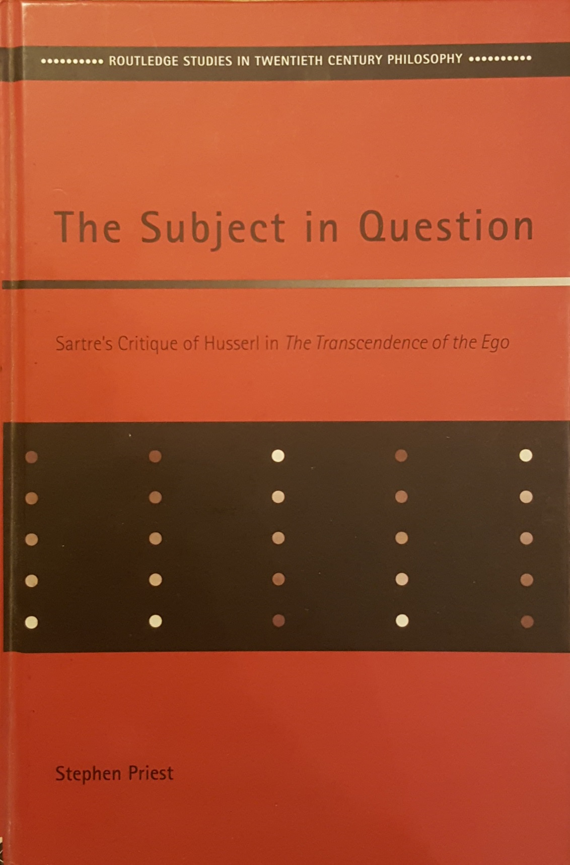 Stephen Priest, The Subject in Question: Sartre's Critique of Husserl in The Transcendence of the Ego